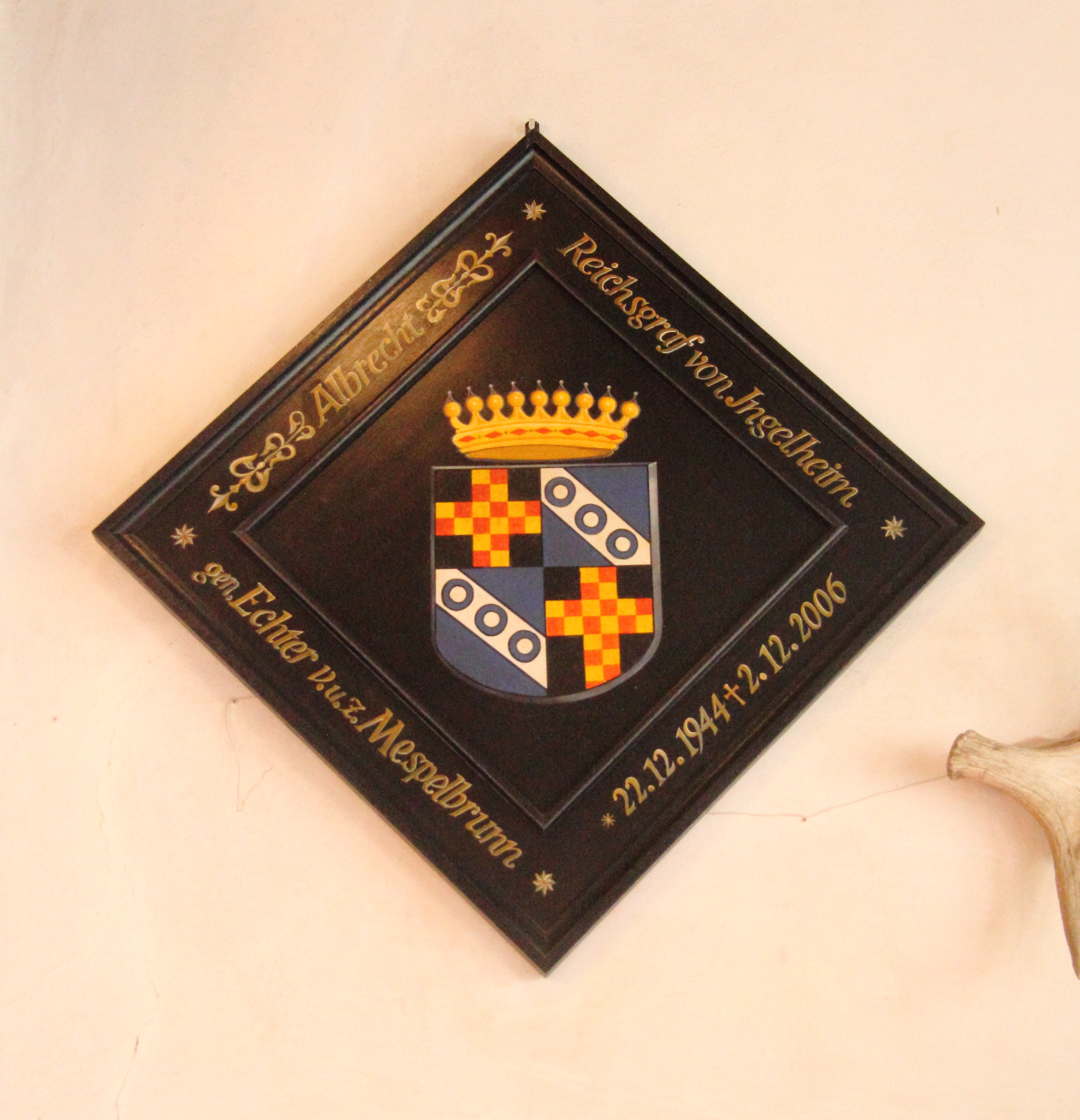 Germany: Mespelbrunn, Mespelbrunn Castle in the Spessart mountains